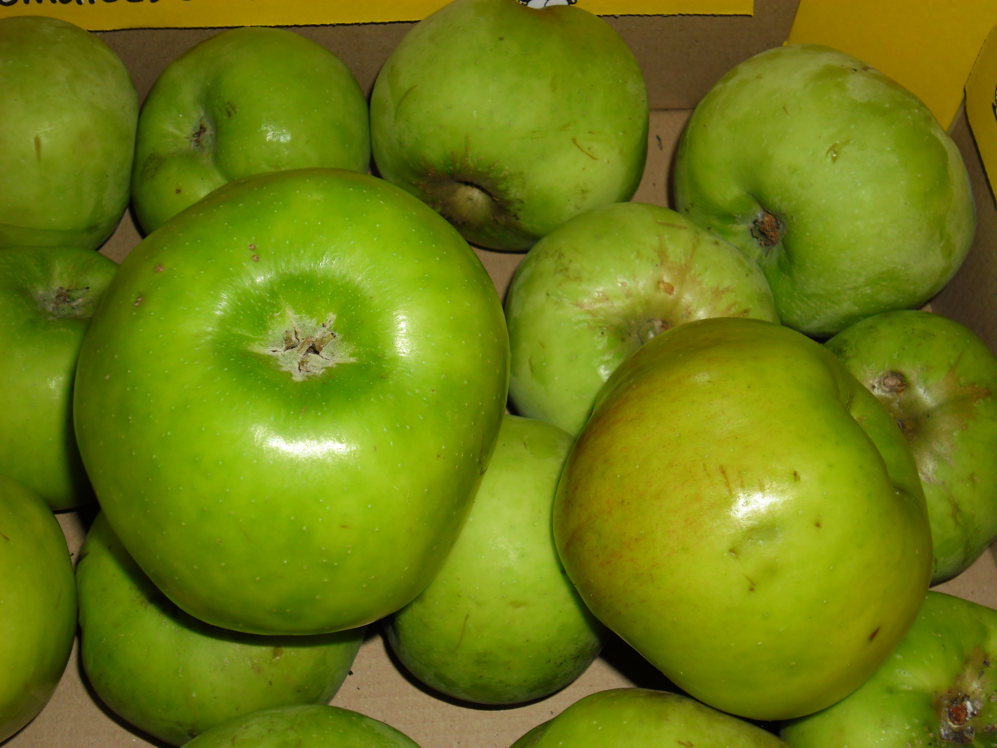 Bramley's Seedling apples from my garden in Holland